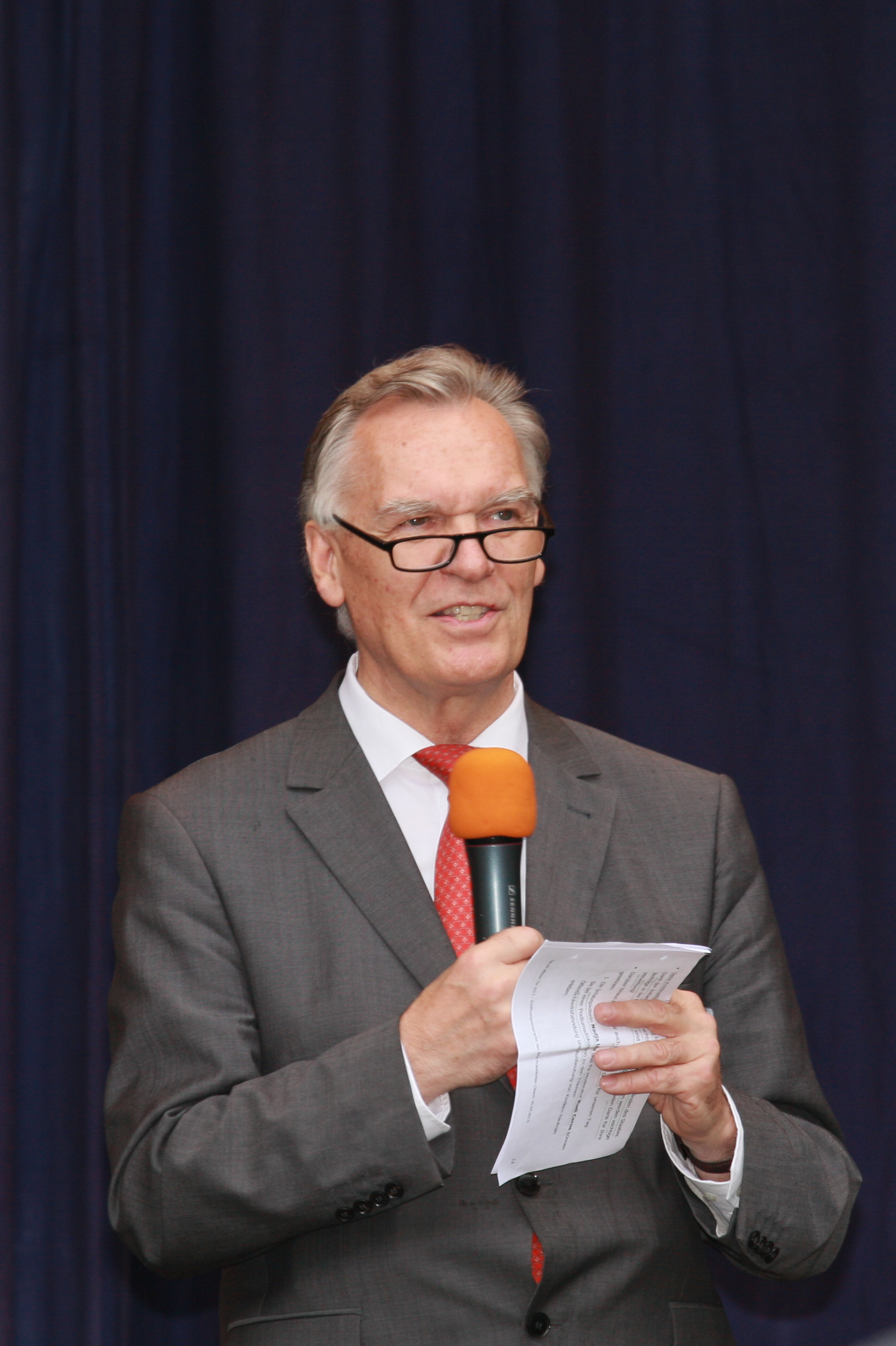 Jörg Ziercke, President of the German Federal Criminal Police Office during the 2013 open day